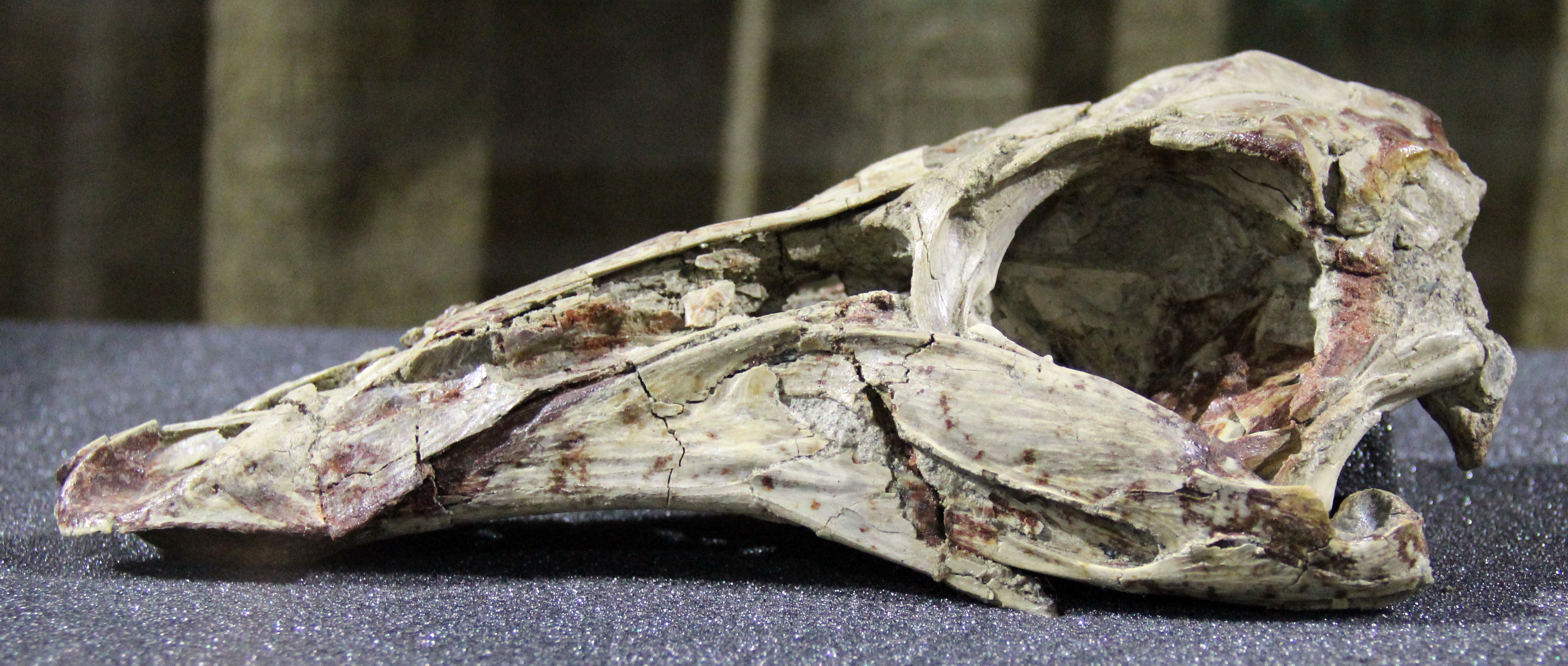 Central Museum of Mongolian Dinosaurs, Ulaanbaatar. Complete indexed photo collection at .